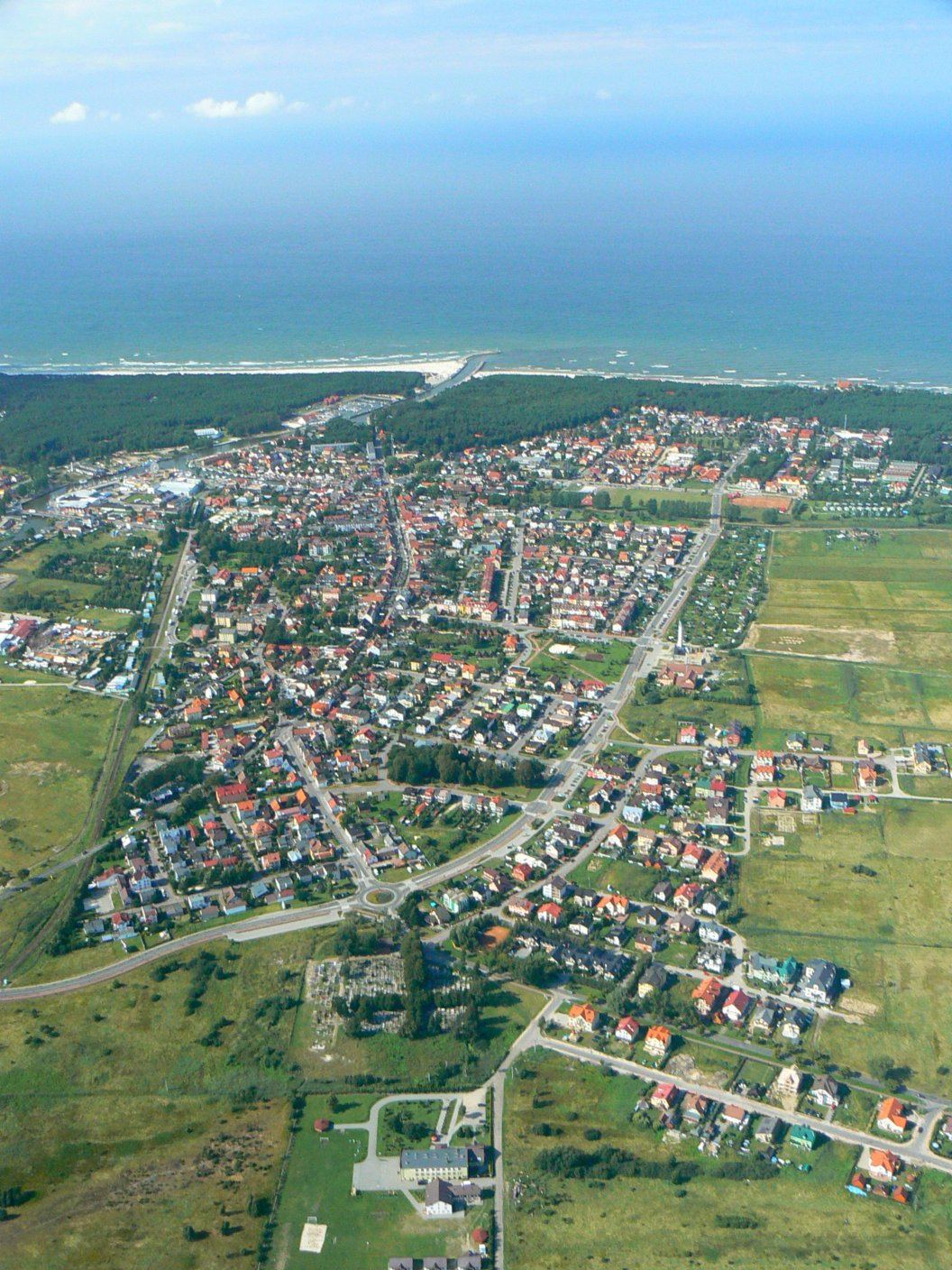 City of Leba - aerial photography.